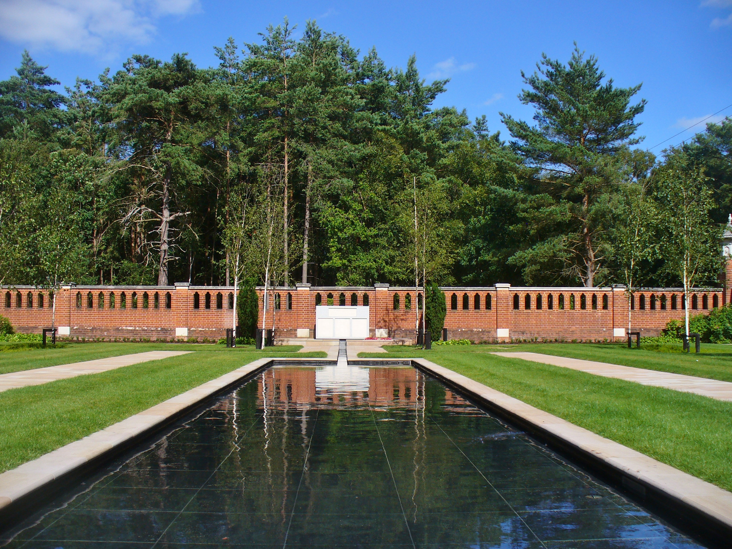 Woking - Peace Memorial Garden. Refurbished 2015, this garden was formerly known as the Muslim Burial Ground and dedicated to all the Muslim soldiers of the British Indian Army who died in WW1 and WW2.